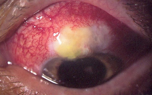 Blebitis - infection and inflammation of the glaucoma Bleb